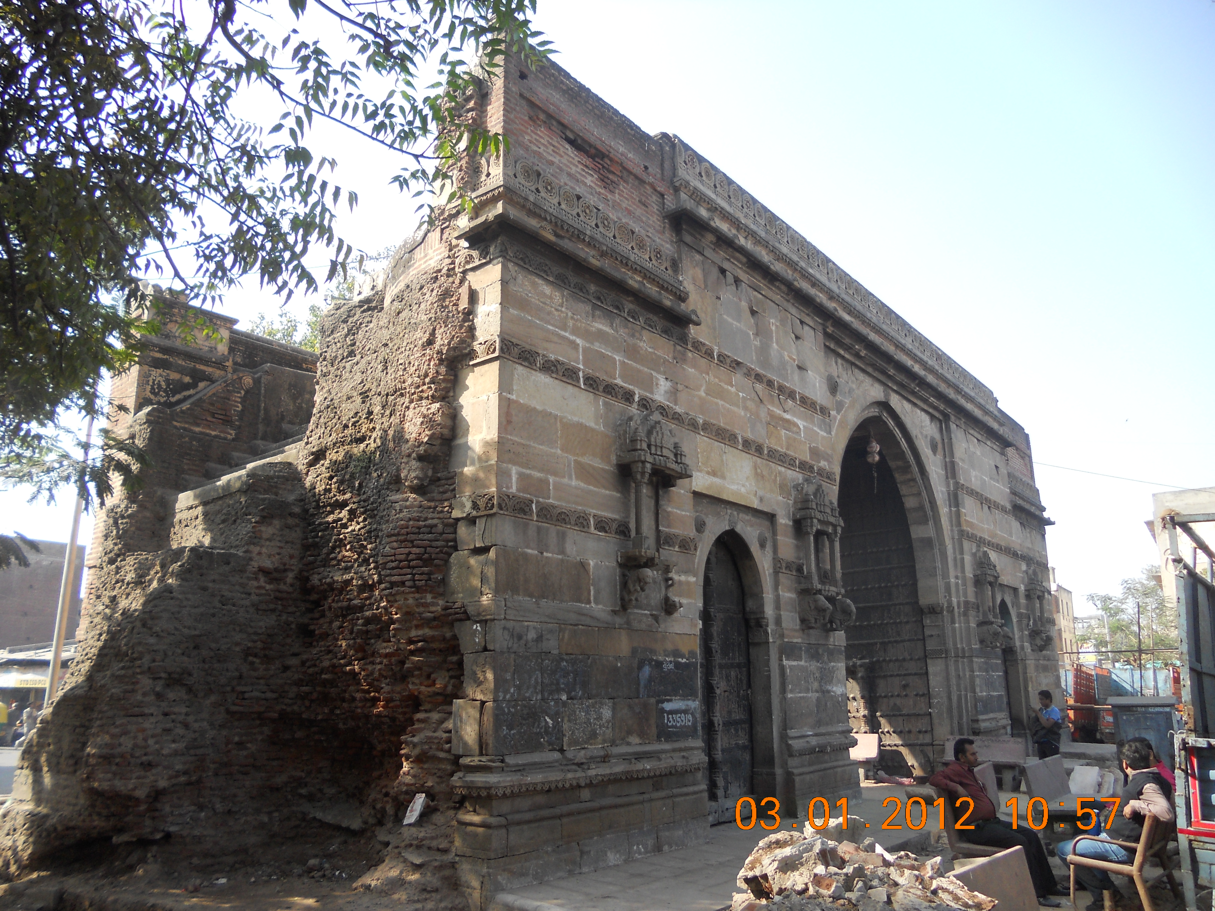 Dariapur Darvaja, Ahmedabad